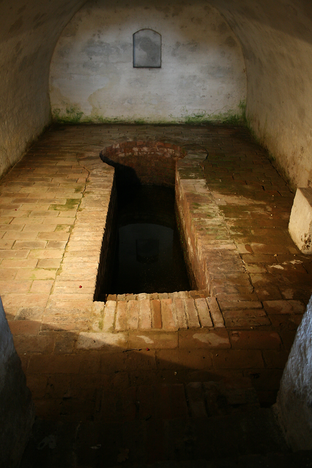 Woerlitz synagogue, mikvah